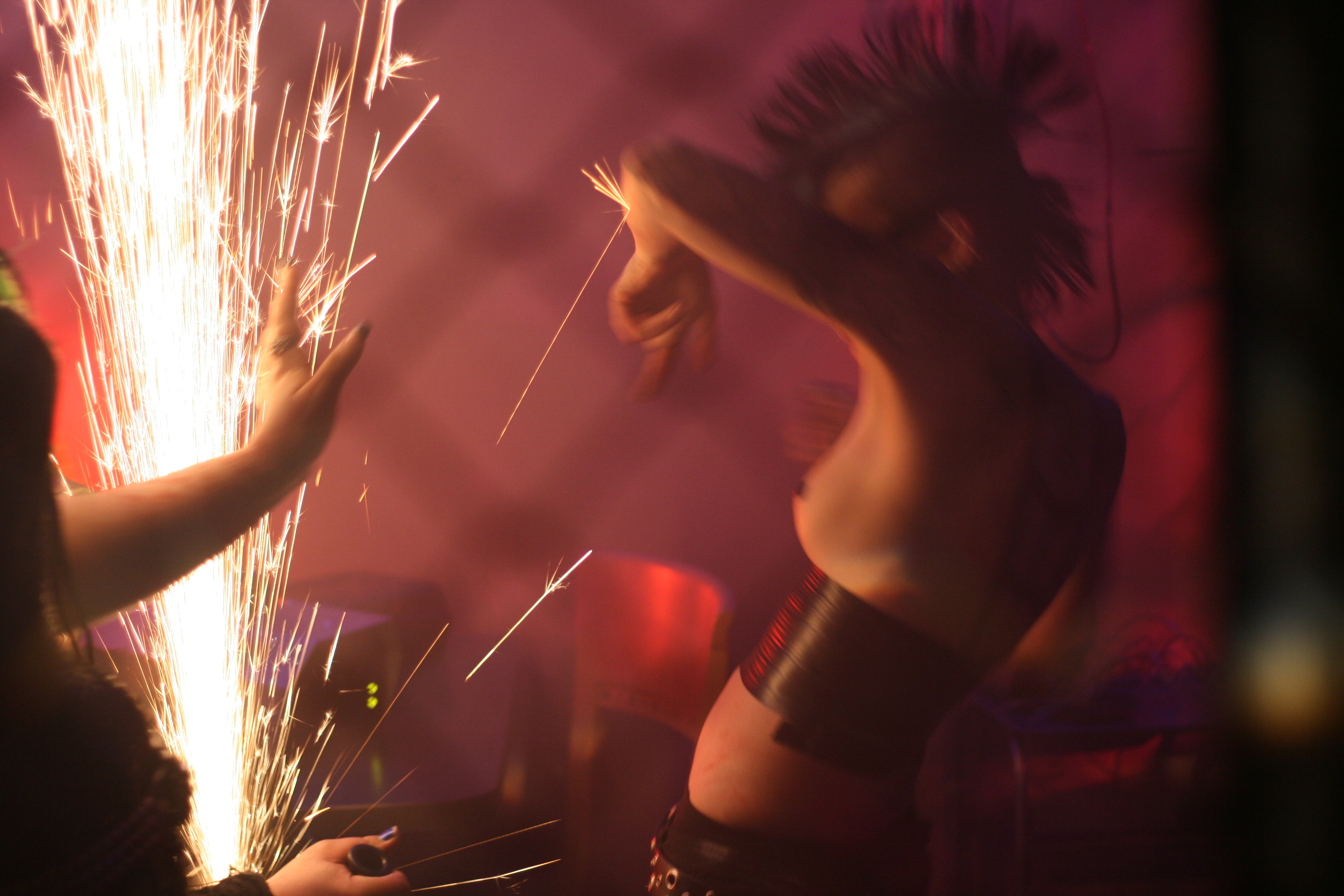 Liveshow in the „Neighbours Nightclub“ in Seattle, USA